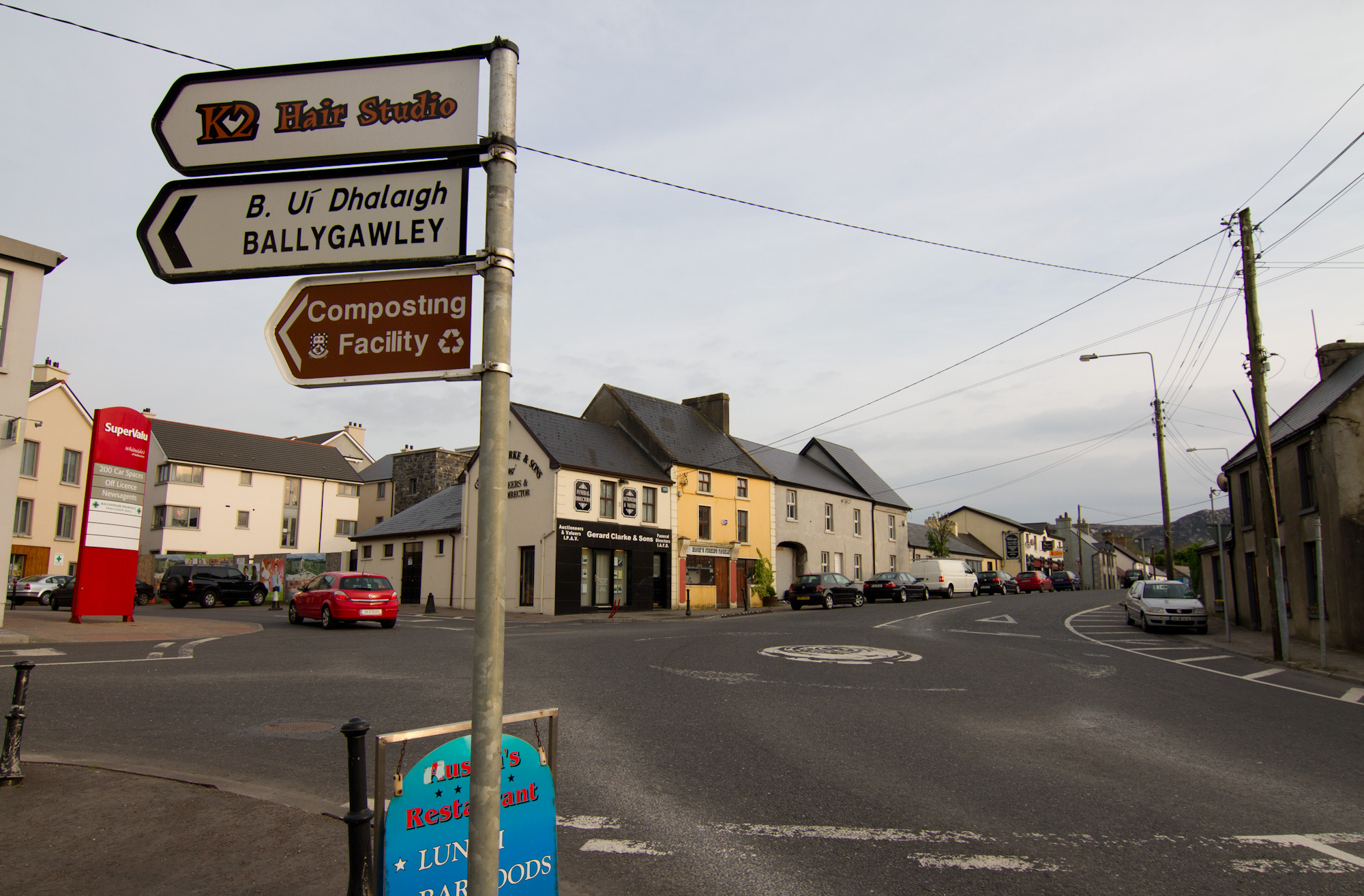 Ballysadare A street view in Ballysadare.